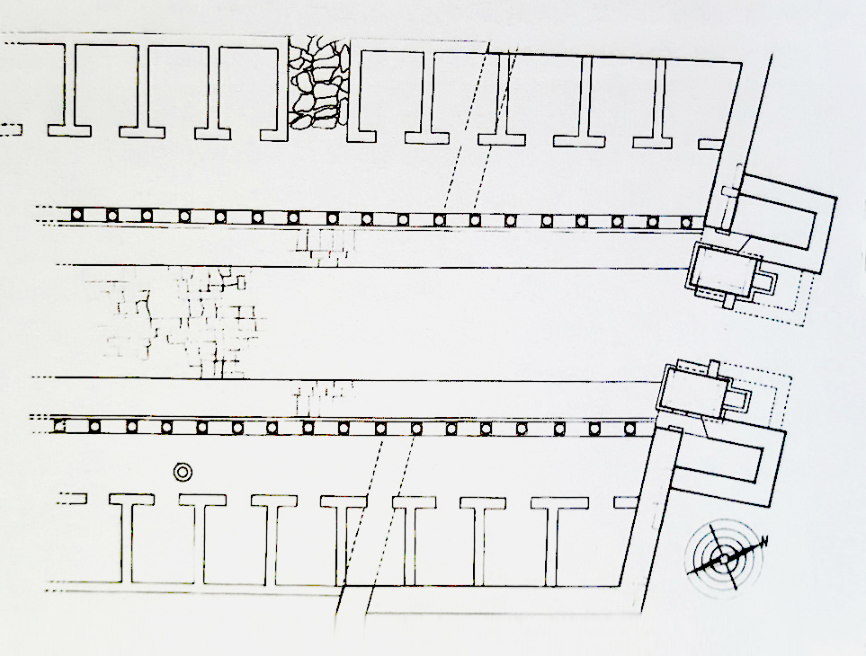 Plan of the Eastern gate of Philippopolis made by arch. Matey Mateev